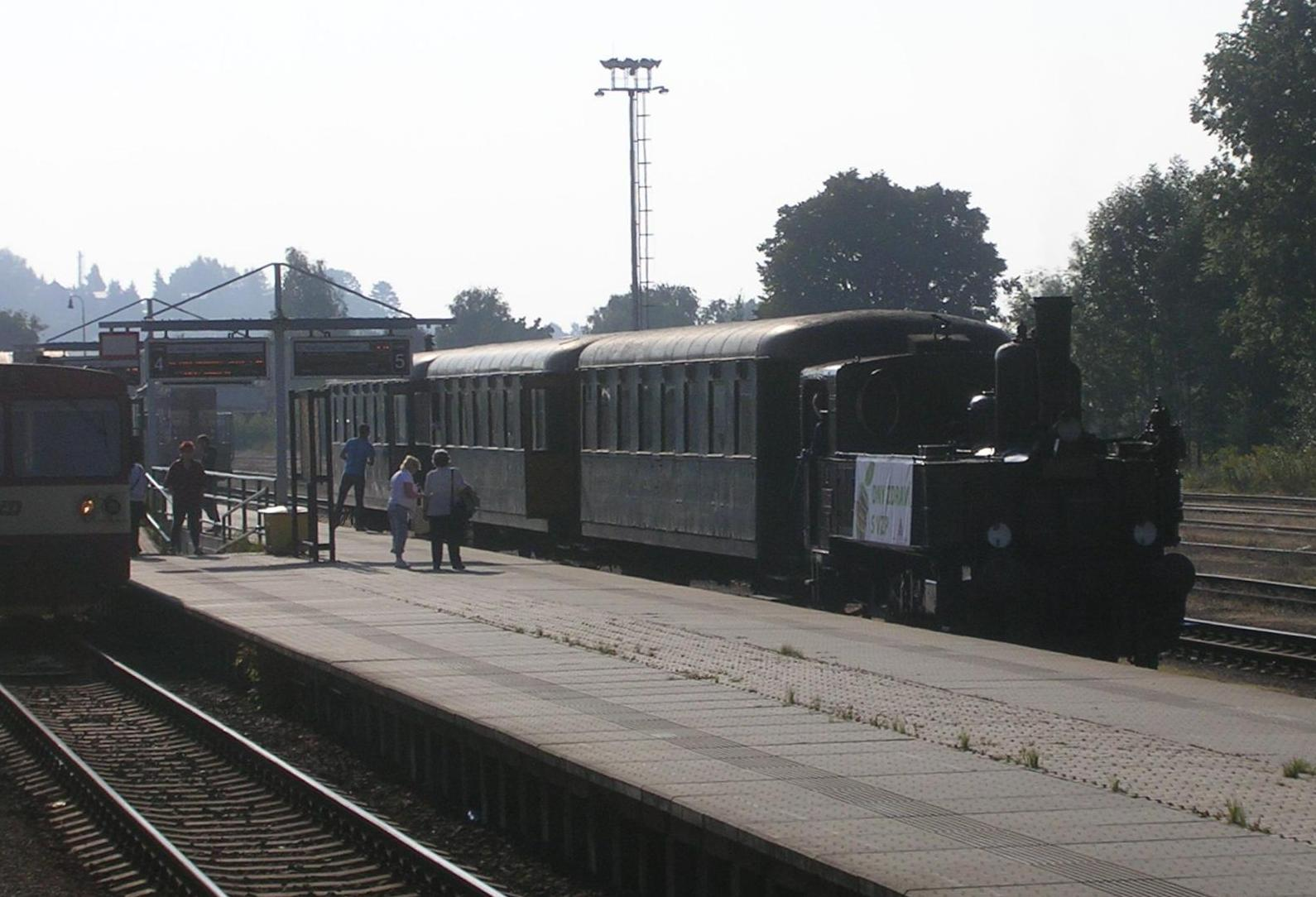 Turnov, Semily District, Liberec Region, the Czech Republic. The train station, a historical train.